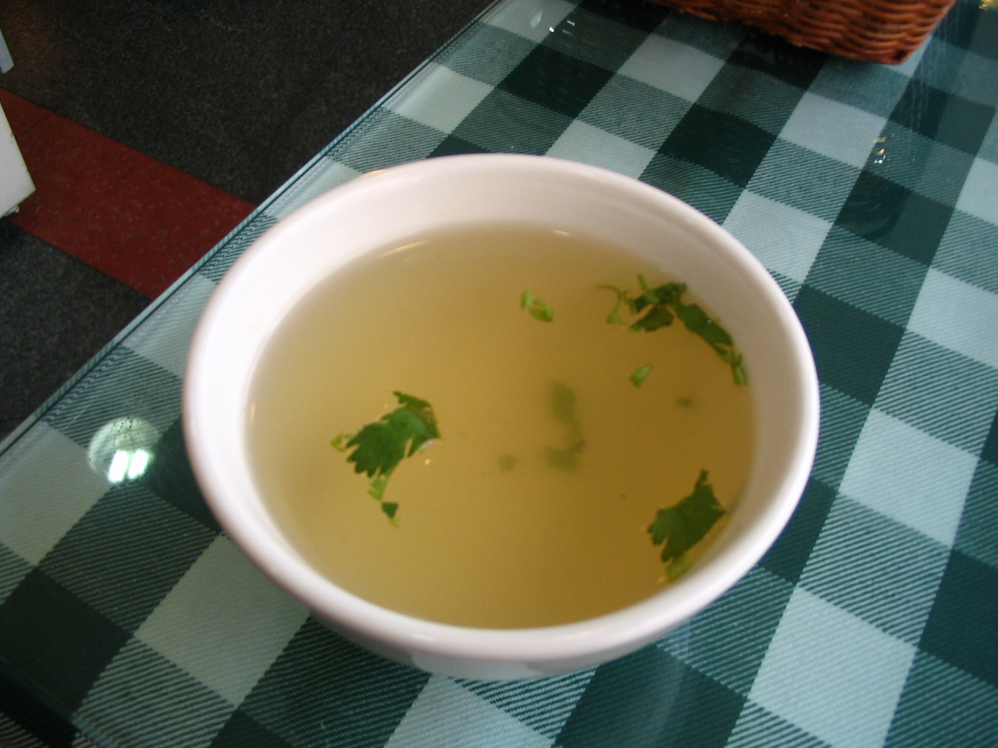 Description（描述）: Soup as attachment of Yang rou pao mo before cooking at Old Sun's, Xi'an, China 中国西安老孙家羊肉泡馍的清汤 Source（来源）: pictured by myself 自己拍摄 Athor（作者）: Pubuhan Links（链接到）：泡馍